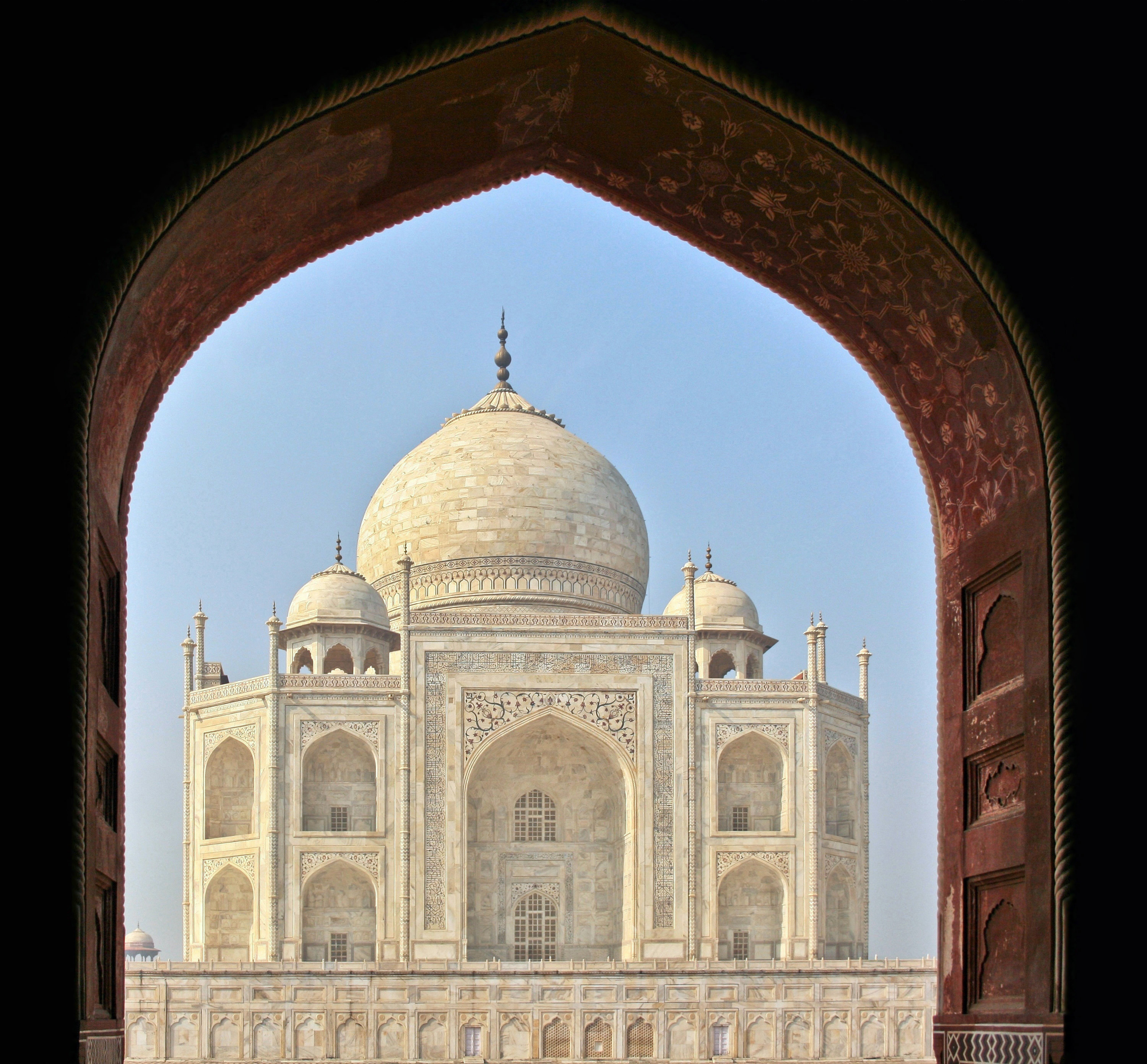 Taj Mahal, Agra, India